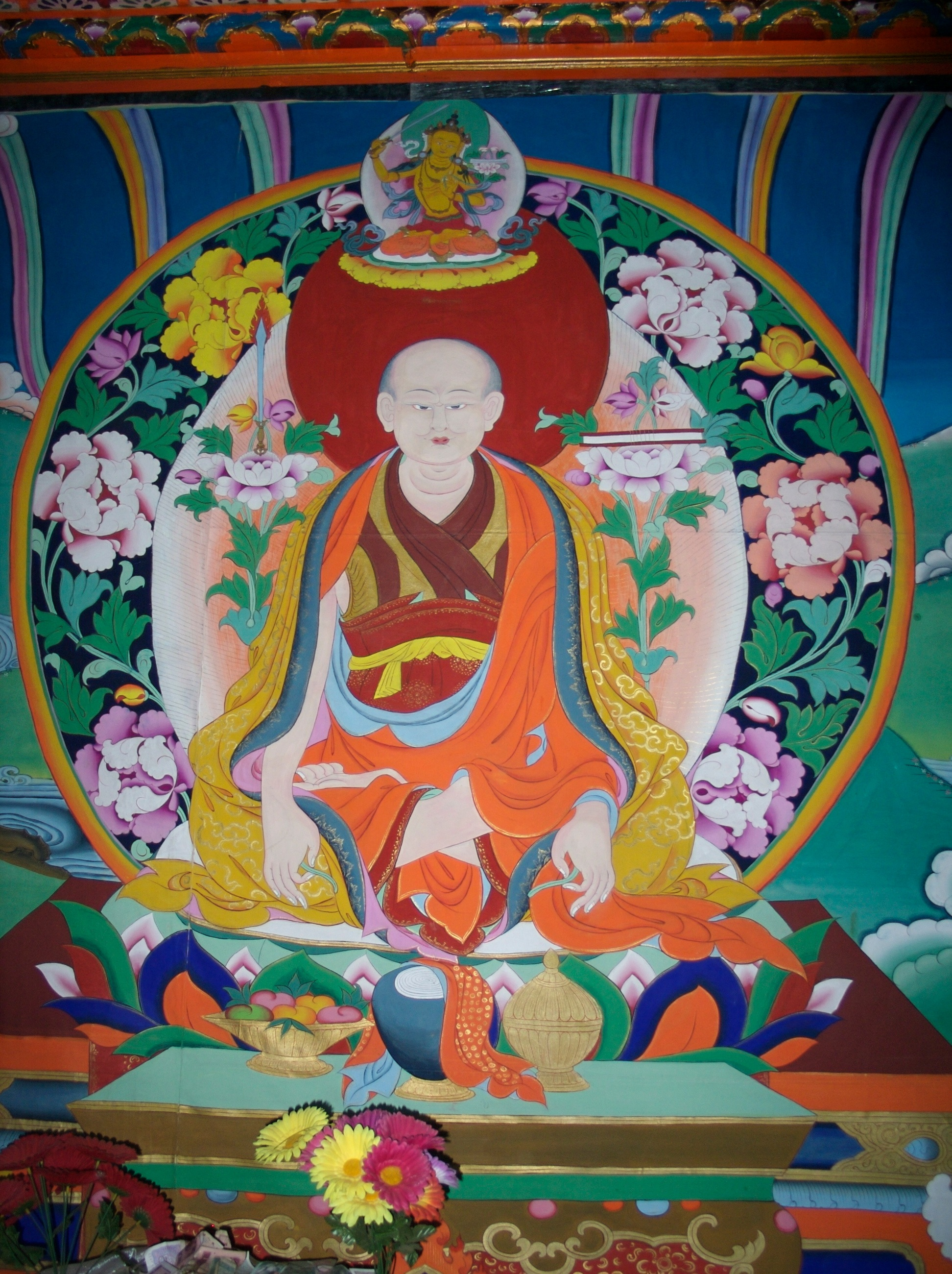 Dampa Deshek (b.1122 - d.1192), Nyingma lama and founder of Katok Monastery, Tibet